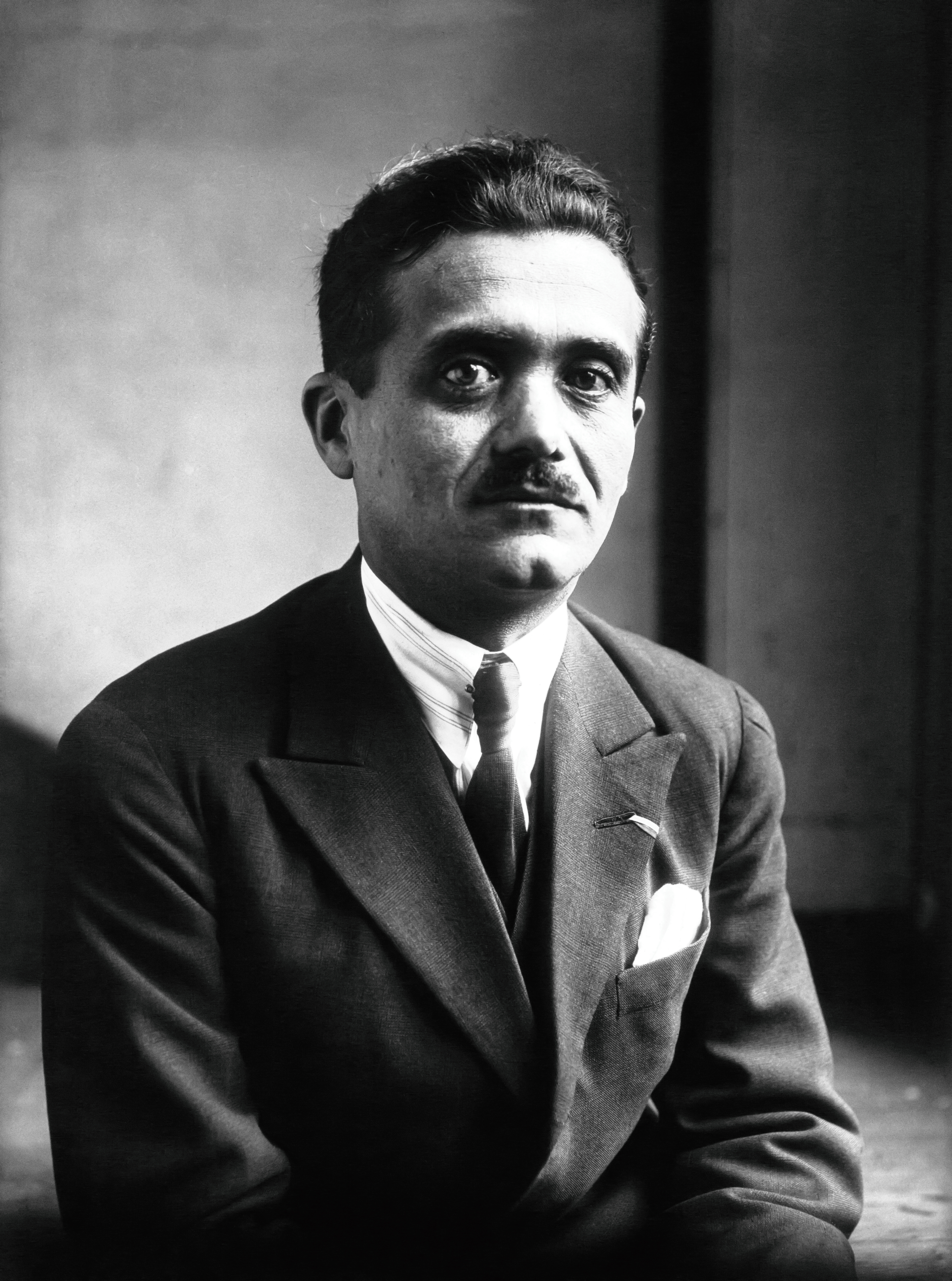 Christian Dauvergne